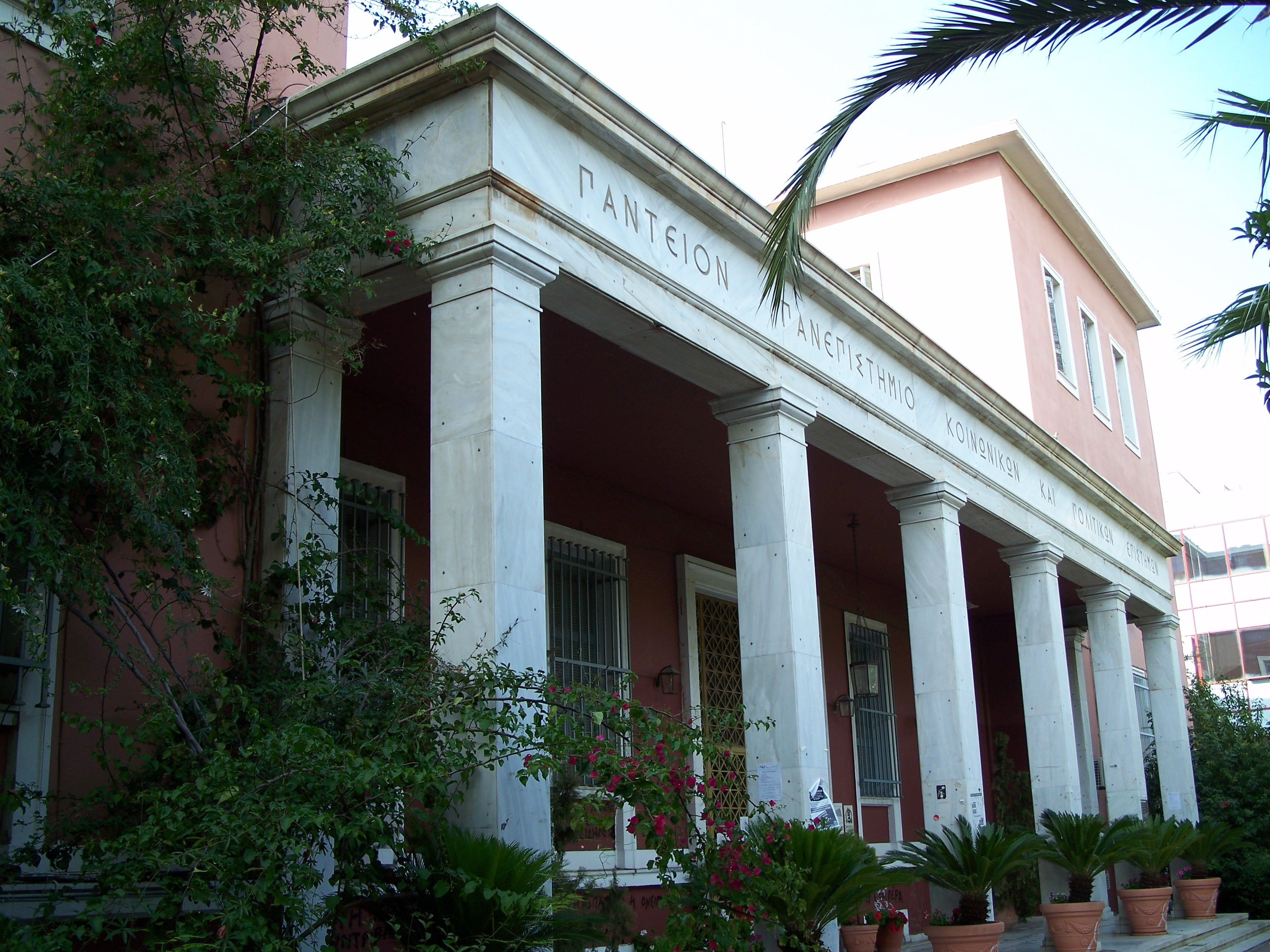 The main building of the Panteion University (Πάντειο Πανεπιστήμιο) of Athens. Located at Syggrou ave.